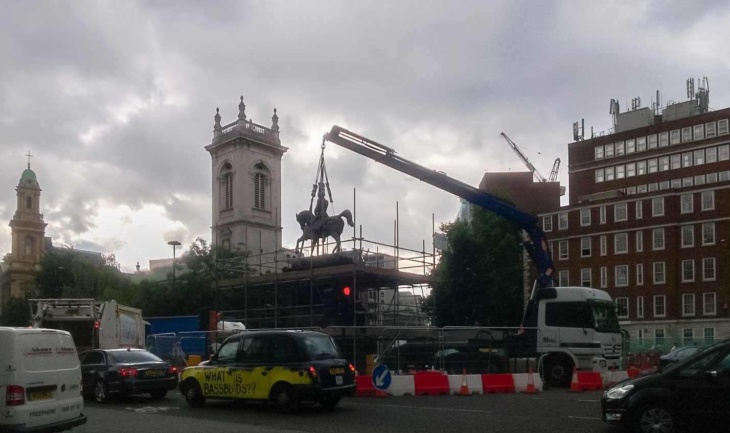 Removal of the Prince Albert statue from Holborn Circus, July 2013